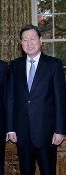 P111005ED-0636dh President George W. Bush welcomes newly appointed South Korean Ambassador to the United States, Lee Tae-sik, to the Oval Office at the White House, Thursday, Nov. 10, 2005. Whiite House photo by Eric Draper